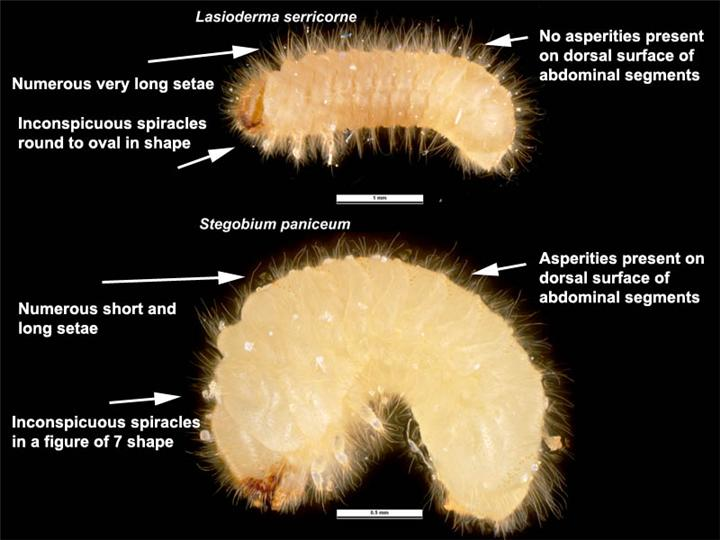 Comparison between Lasioderma serricorne and Stegobium paniceum larvae